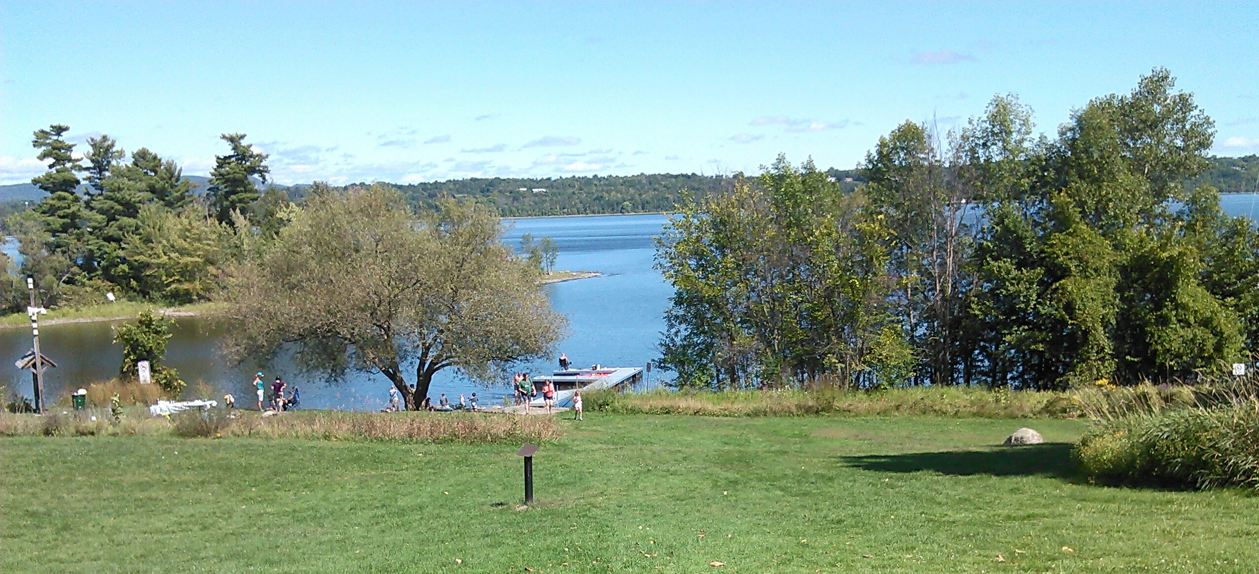 Outbuilding, Pinhey Homestead, erected c. 1825, March Township, Carleton County, Ontario. June 8, 1925. Now in the Kanata community of Ottawa, Ontario, Canada